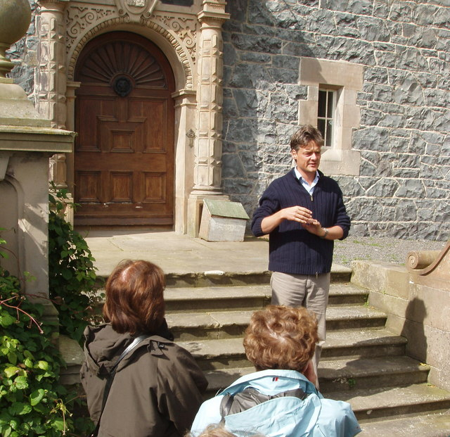 Guided tour of Killyleagh Castle Standing outside his front door, Gawn Rowan Hamilton who owns the castle tells us about the history of the castle, and about his family which has owned it since 1606. for a Killyleagh community website reproduction of a Belfast Telegraph article "King of my Castle" about him, his family and his castle.